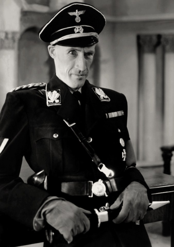 John Carradine in Hitler's Madman - publicity still (cropped : see source)